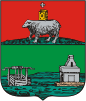 Yekaterinburg (Sverdlovsk oblast), coat of arms (1783)